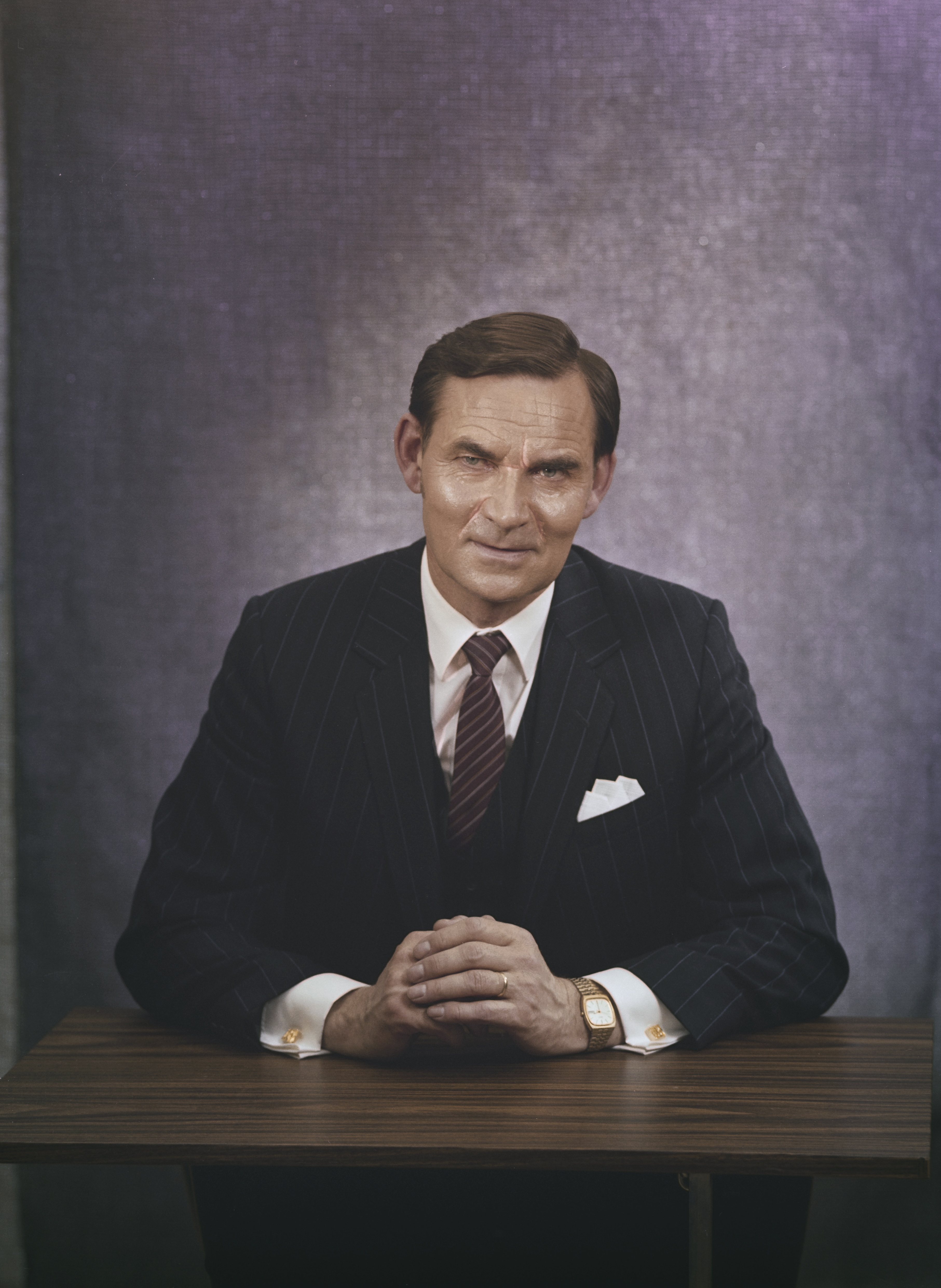 Photograph of the Finnish director general Pertti Tuomala (1931–).